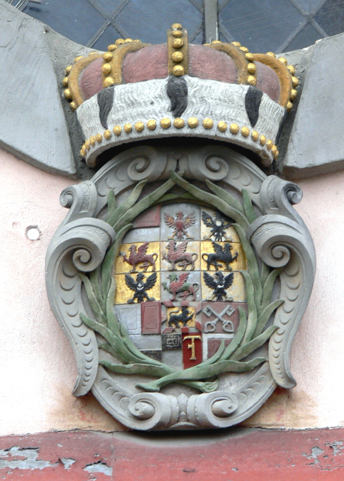 Schwabach (Bavaria) . French church ( 1687 ) - Coats of arms of Christian Albrecht, Margrave of Brandenburg-Ansbach, above the entrance.